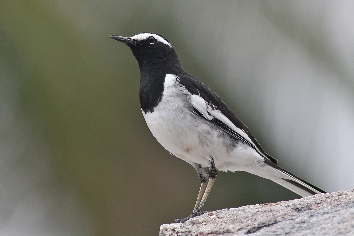 It is a medium-sized bird and is the largest member of the wagtail family. Conspicuously patterned with black above and white below, they have a prominent white brow, shoulder stripe and outer tail feathers. They are common in small water bodies and have adapted to urban environments where they often nest on roof tops.